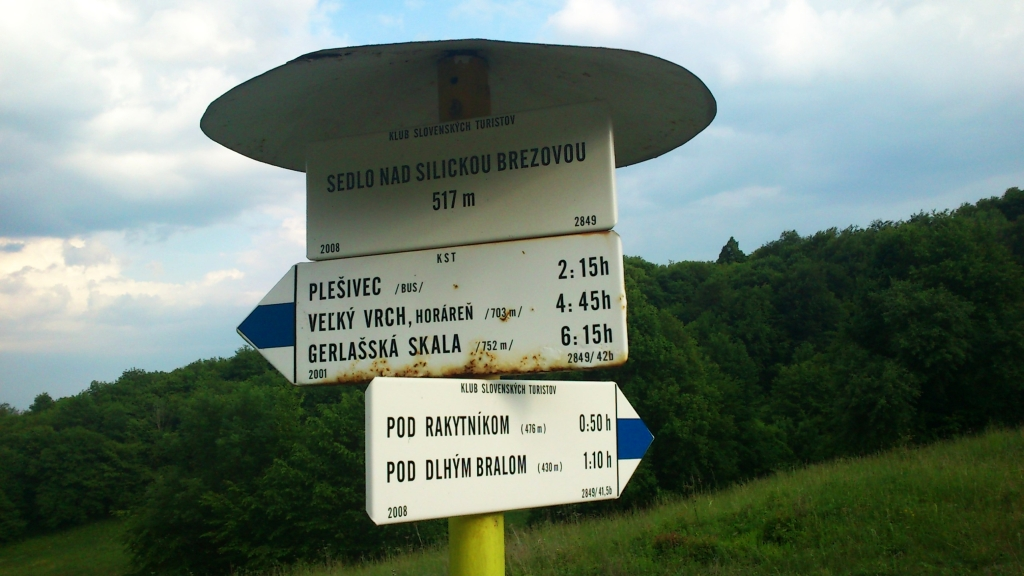 Information board